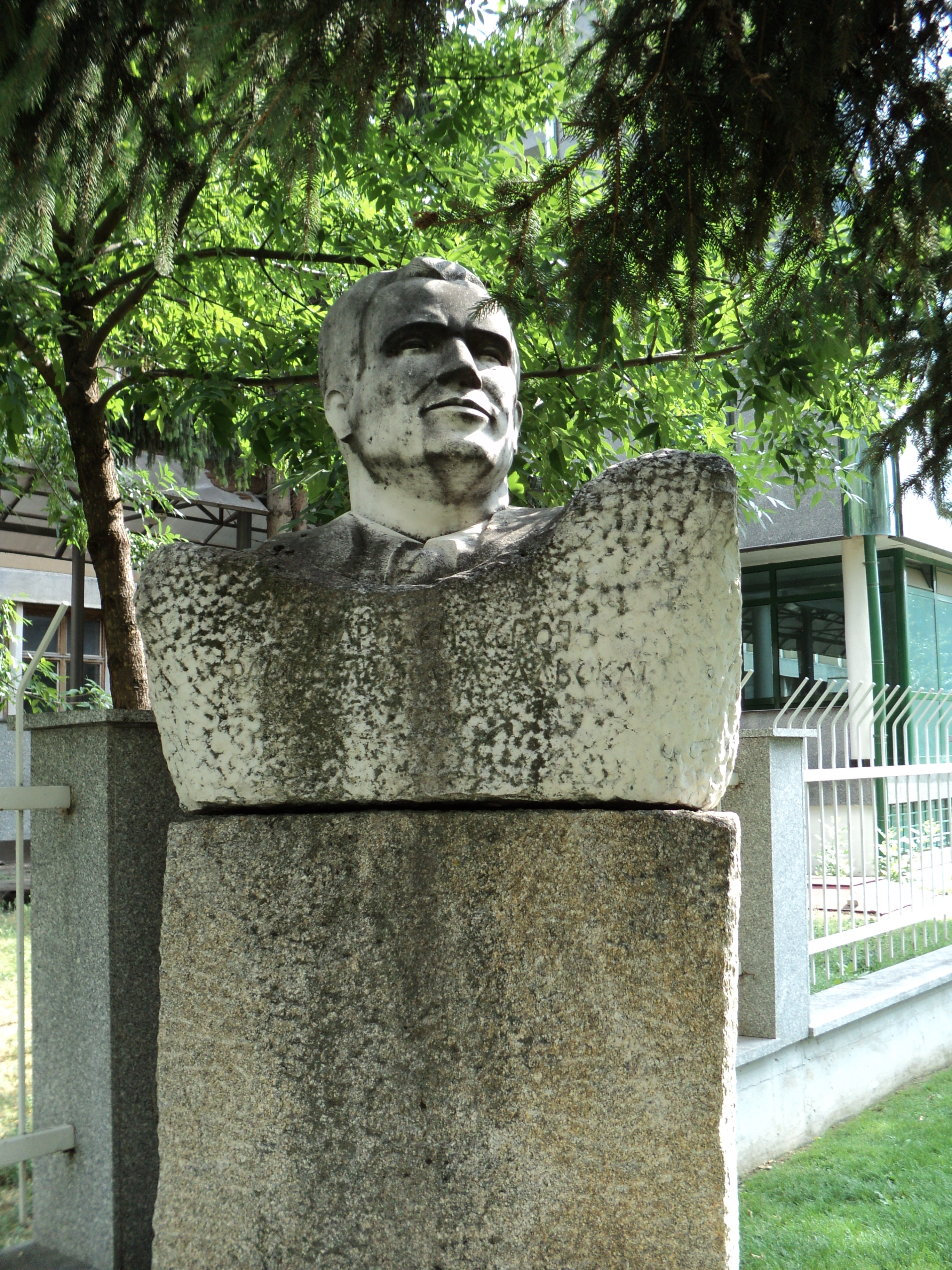 Bust of People's hero of Yugoslavia, Rampo Levkov, in Prilep.